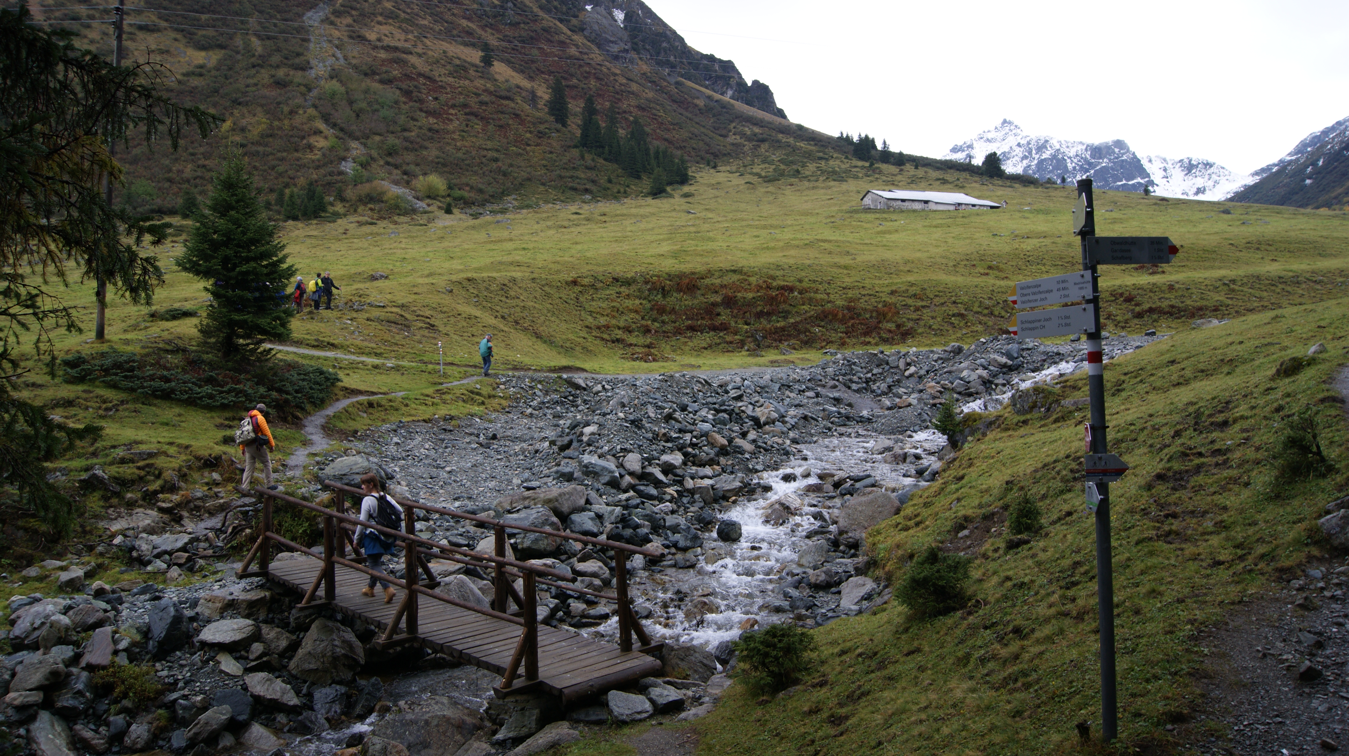 Part of the hiking trail in the Valzifenztal (valley) in Gargellen (Vorarlberg, Austria). Shortly before the lower Valzifenzalpe (alp). In the background the "Schlappiner Spitze" (peak) Dieses Bild wurde anlässlich des österreichischen Tags des Denkmals 2017 in Vorarlberg eingereicht.